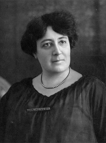 Claire Legrand (Jules Jaspar'wife)